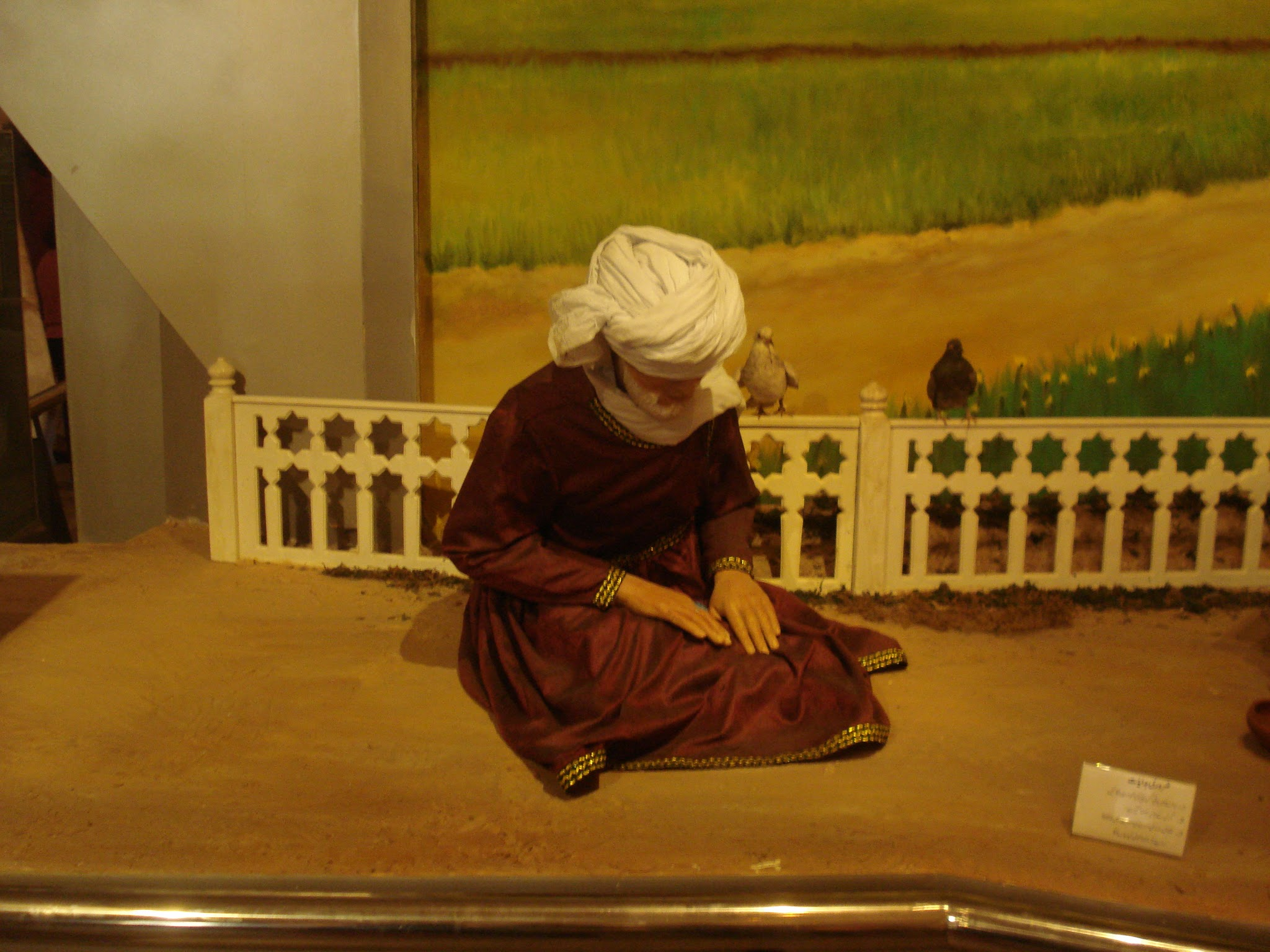 Pakistan Monument This is a photo of a monument in Pakistan identified as the ICT-4